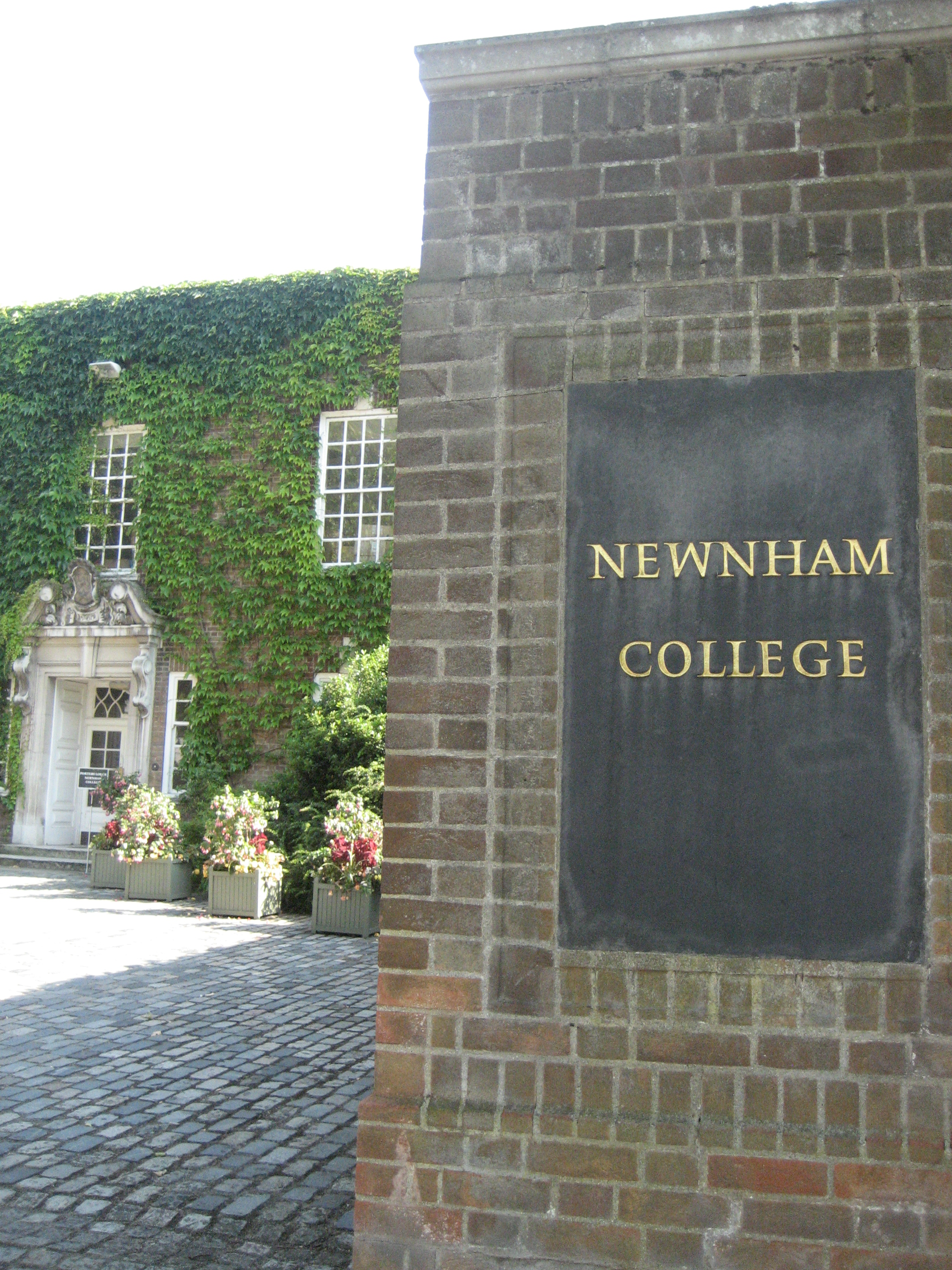 Entrance of Newnham College, Cambridge, England (UK)